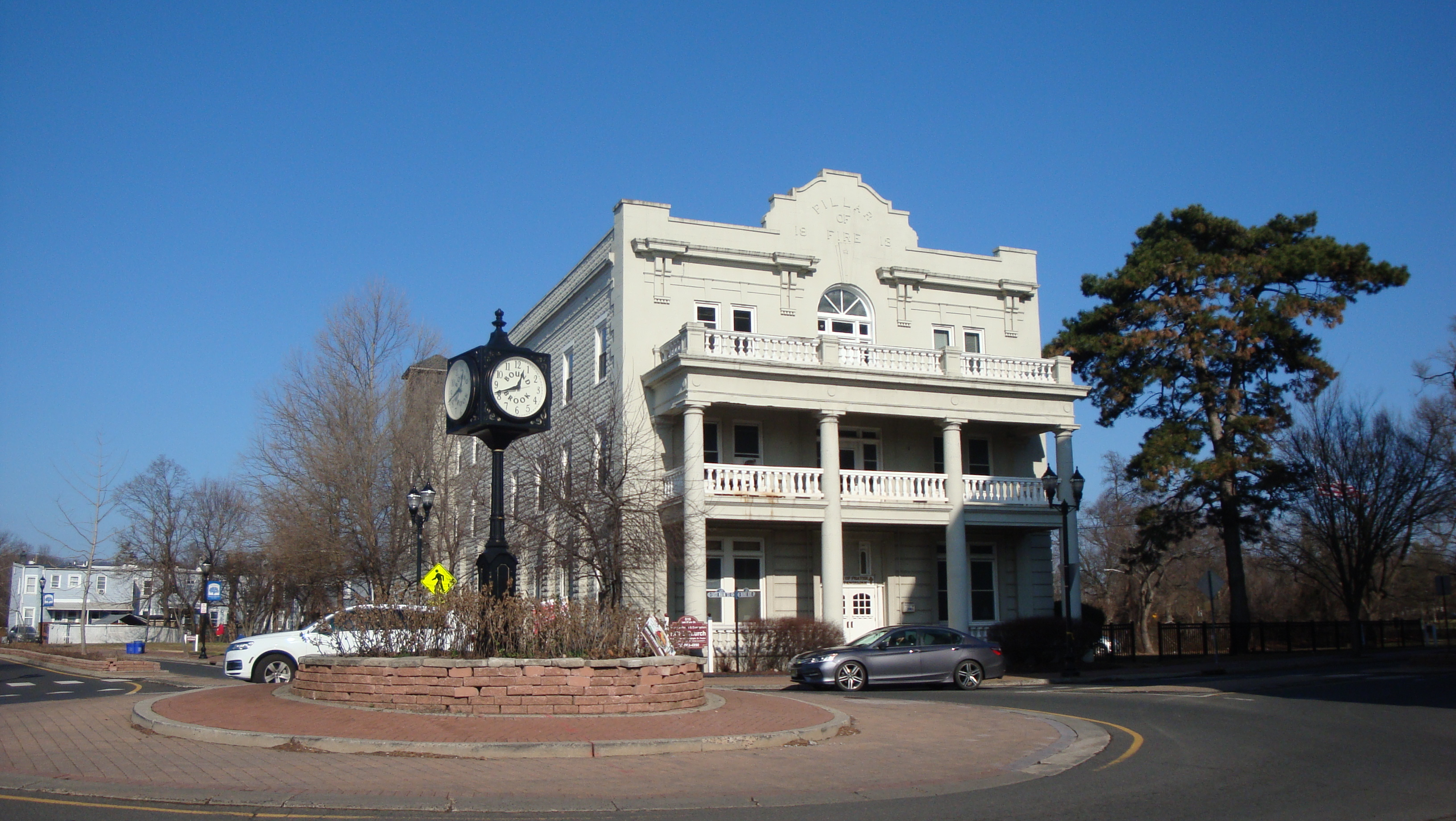 Shows clock and roundabout in Bound Brook